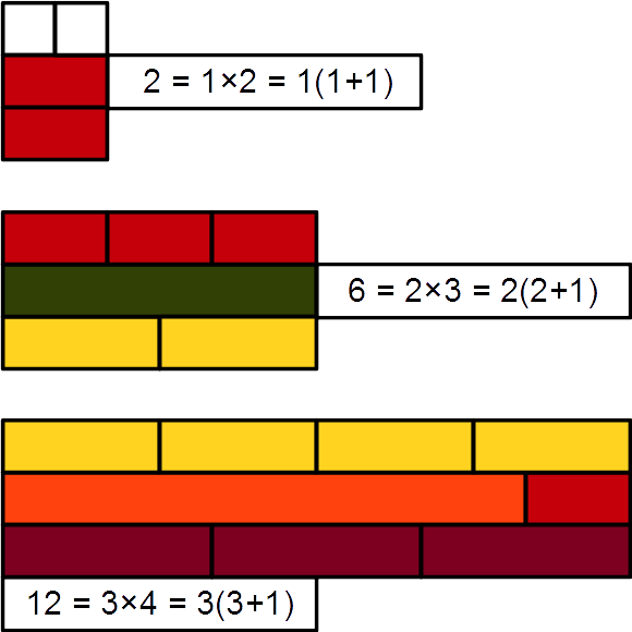 Showing, through Cuisenaire rods, that 2, 6, and 12 are pronic numbers.